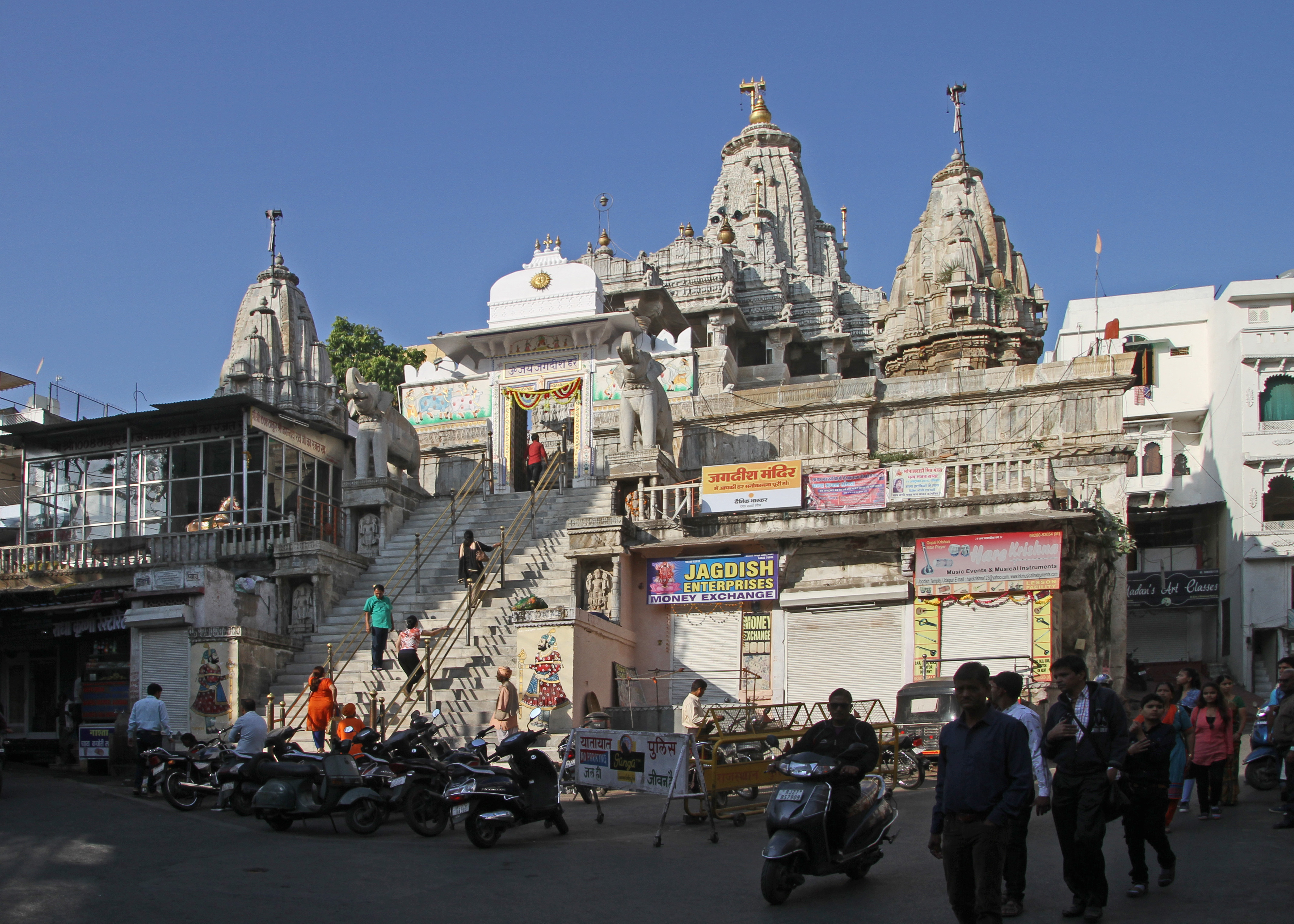 Udaipur, Jagdish temple